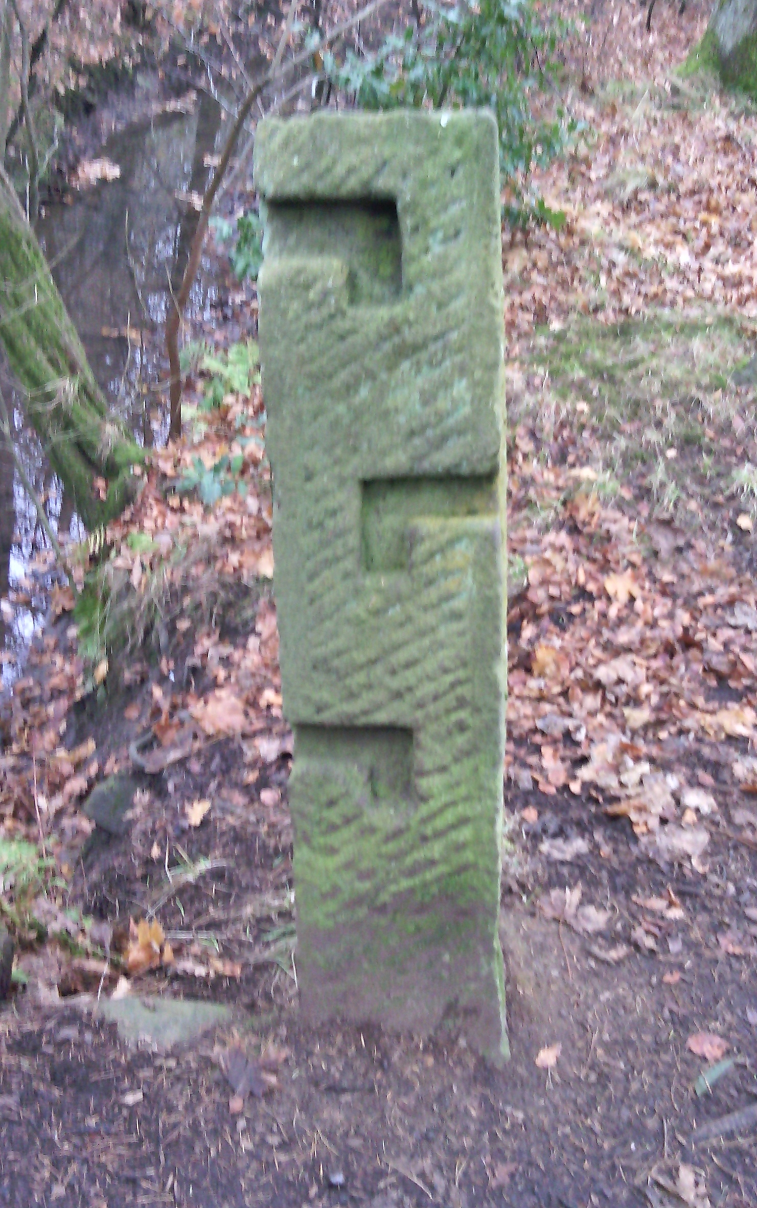 A Slip gate post, Greenbank Gardens, Clarkston, Scotland. An unusual design with one slot facing the other direction.